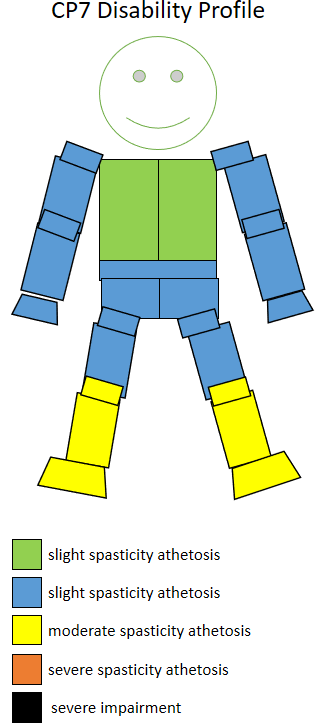 This image descriptions the spasticity athetosis level of a CP7 CP-ISRA classified sports person with cerebral palsy. It was created using information from .